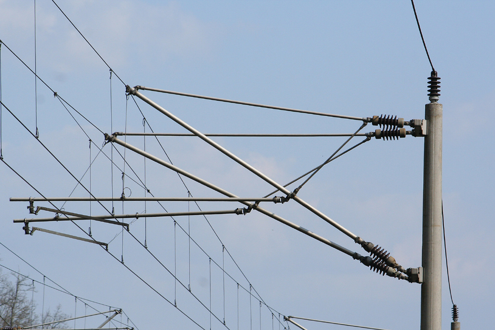 Catenary on the Mannheim-Stuttgart high-speed railway line